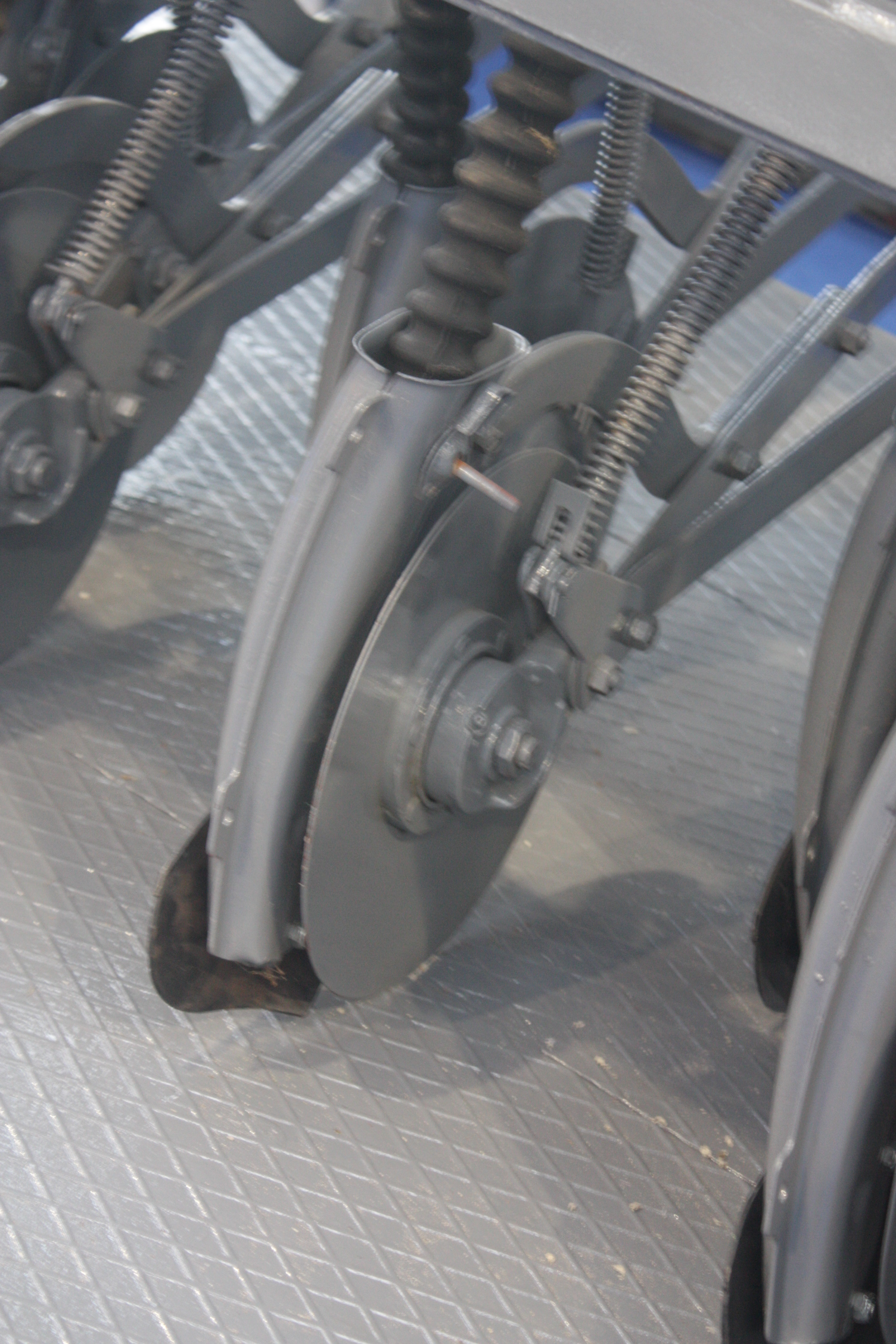 Close up of the coulter assembly on a restored Ferguson GPE 15 seed drill (built 1955) at the Newark Vintage Tractor and Heritage Show 2008, Newark Showground, Newark, Nottinghamshire, England